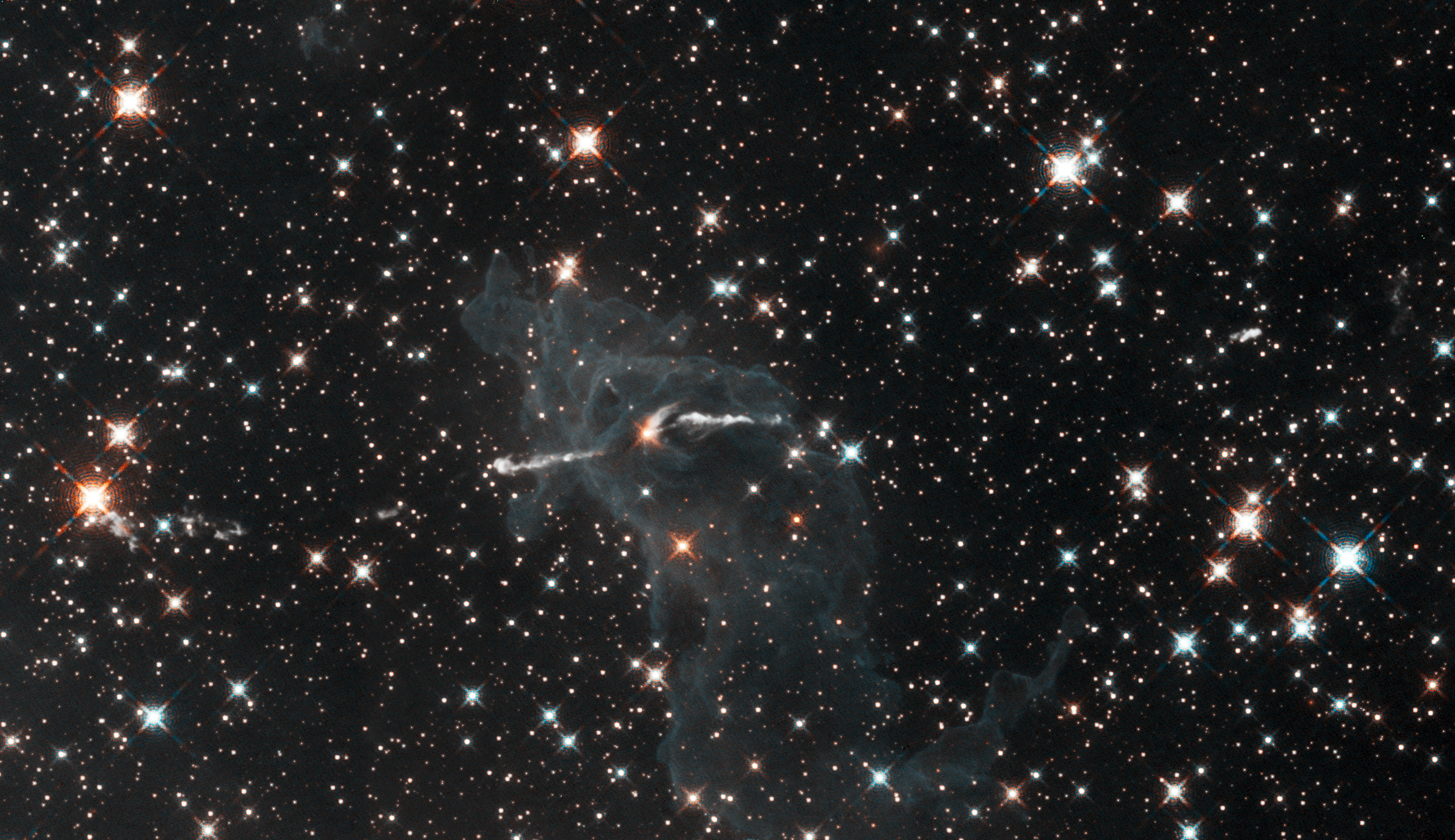 Composed of gas and dust, the pictured pillar resides in a tempestuous stellar nursery called the Carina Nebula, located 7500 light-years away in the southern constellation of Carina. Taken in infrared light, the image shows the dense column and the surrounding greenish-coloured gas all but disappear. Only a faint outline of the pillar remains. By penetrating the wall of gas and dust, the infrared vision of the Wide Field Camera 3 (WFC3) reveals the infant star that is probably blasting the jet. Part of the jet nearest the star is more prominent in this view. These features can be seen because infrared light, unlike visible light, can pass through the dust. Hubble's Wide Field Camera 3 observed the Carina Nebula on 24-30 July 2009. The composite image was made from filters that isolate emission from iron, magnesium, oxygen, hydrogen and sulphur.